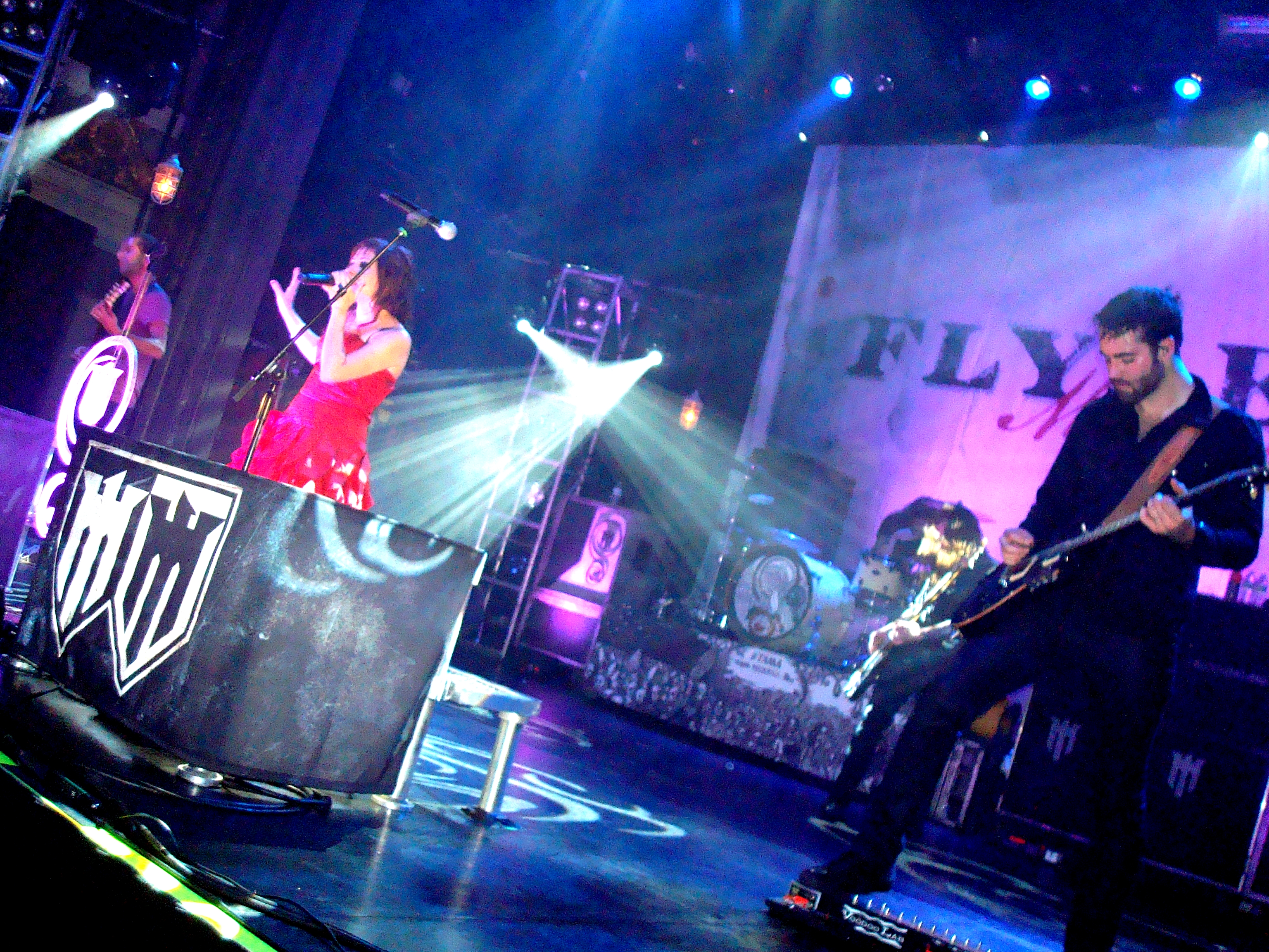 Flyleaf performing live at the Regency Ballroom in San Francisco, California on October 18th, 2010.